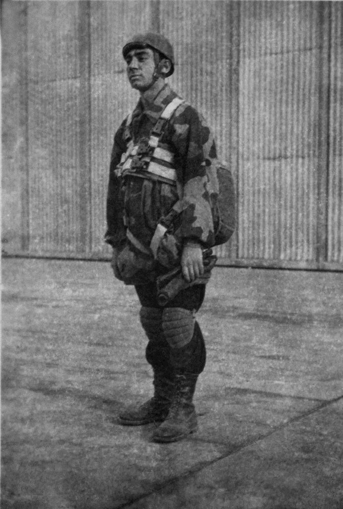 Lt Renato Migliavacca at Tarquinia